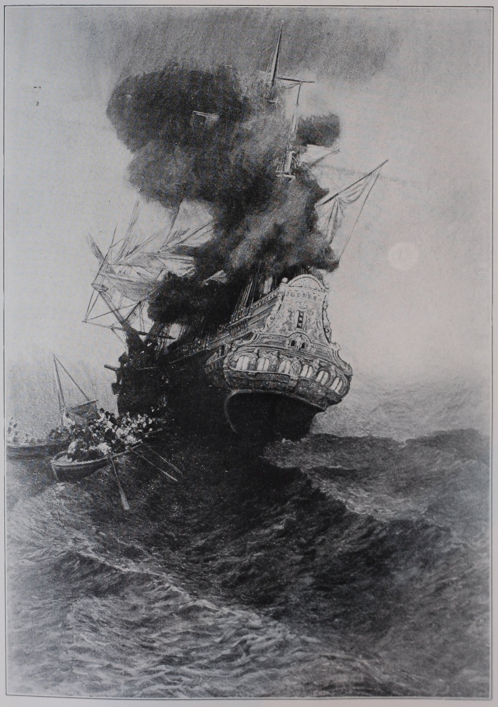 The Burning Ship: a ship burns on the ocean. This was originally published in Collier's Weekly (1898).